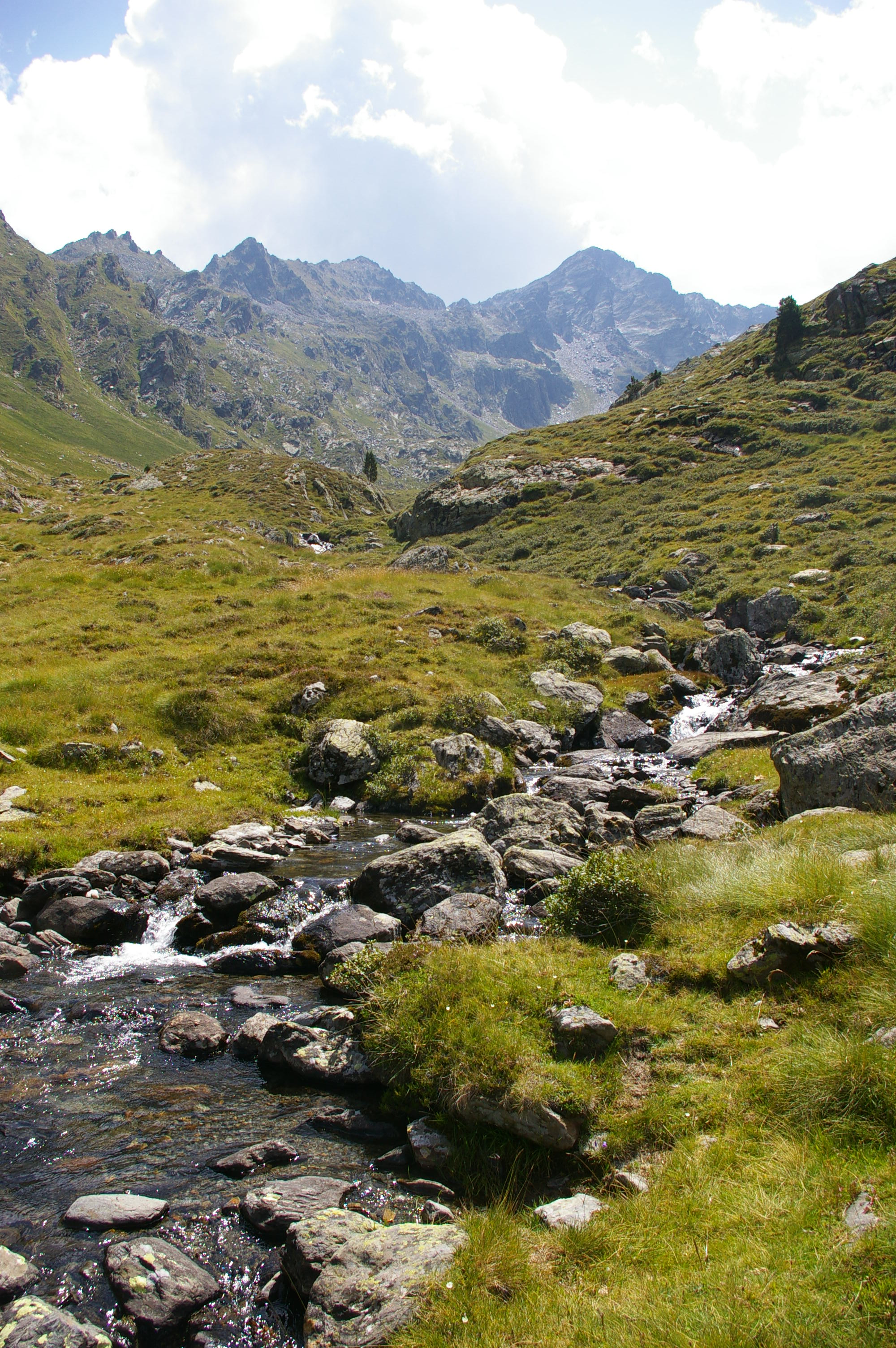 Landscape in the Ariège, south of the Barrage de Soulcem, south of Auzat. Geolocation is approximate.